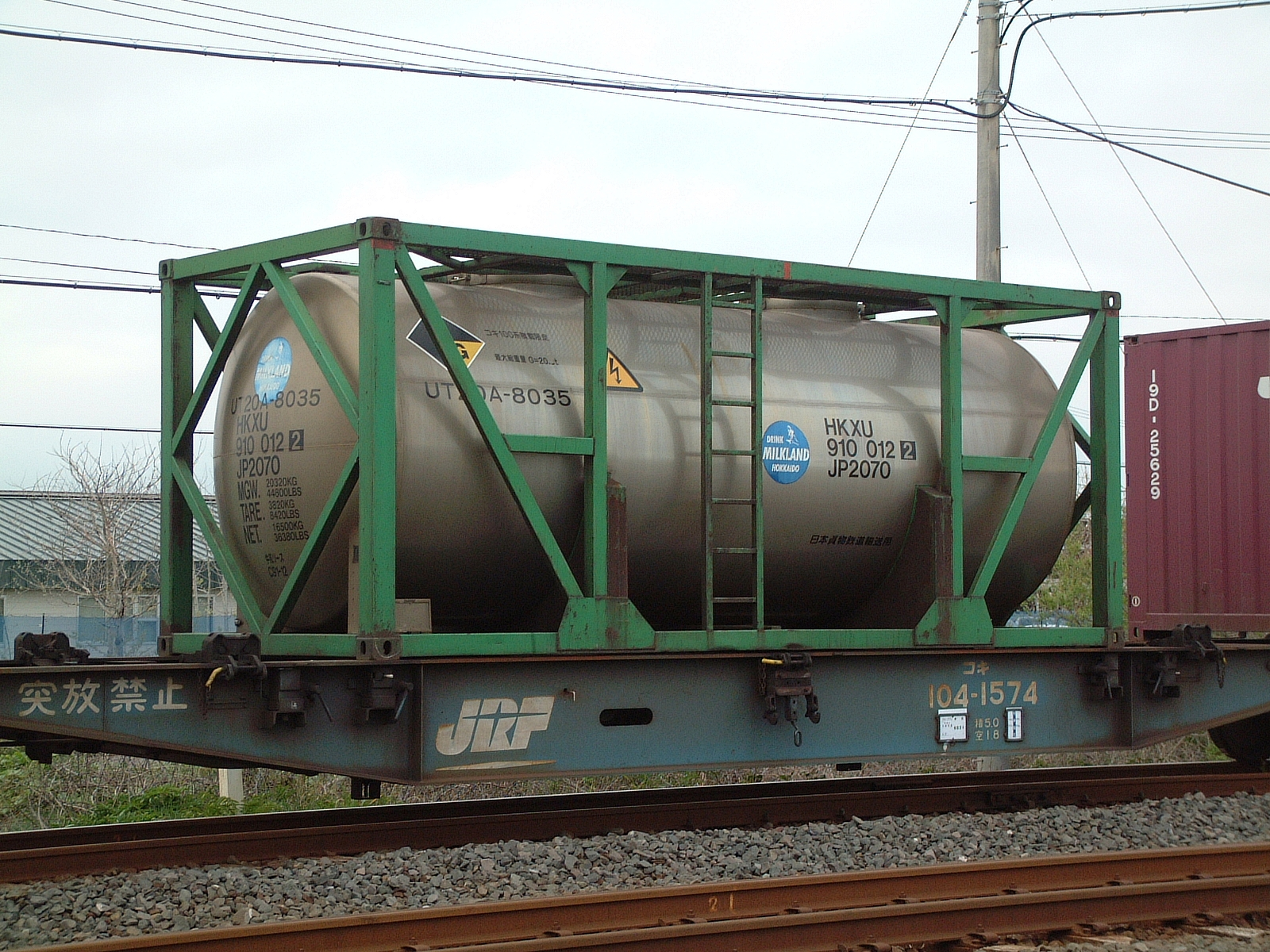 ISO tank container for milk transportation that Hokuren (Hokuren Federation of Agricultural Cooperation Associations) owns.(HKXU910012_2 JP2070)